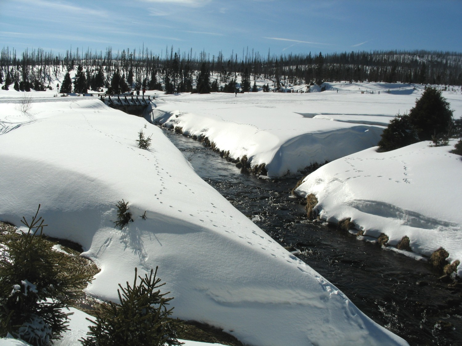 The brook Modravský potok in the Šumava Mts., Czech republic